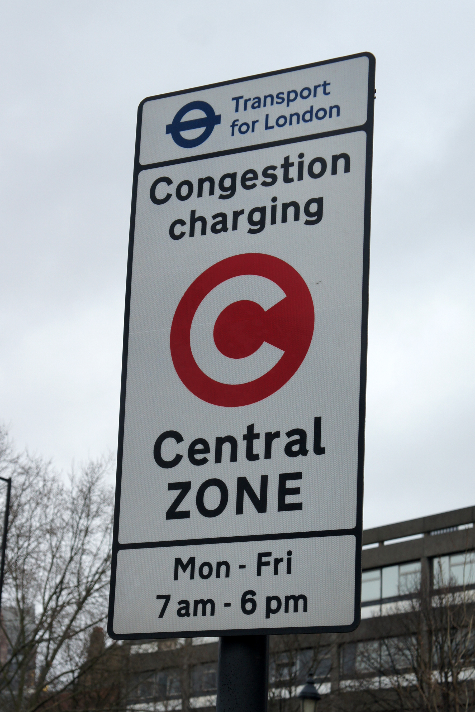 Vertical sign at the Tower Hill (A100) entrance of the London Congestion Charge Zone